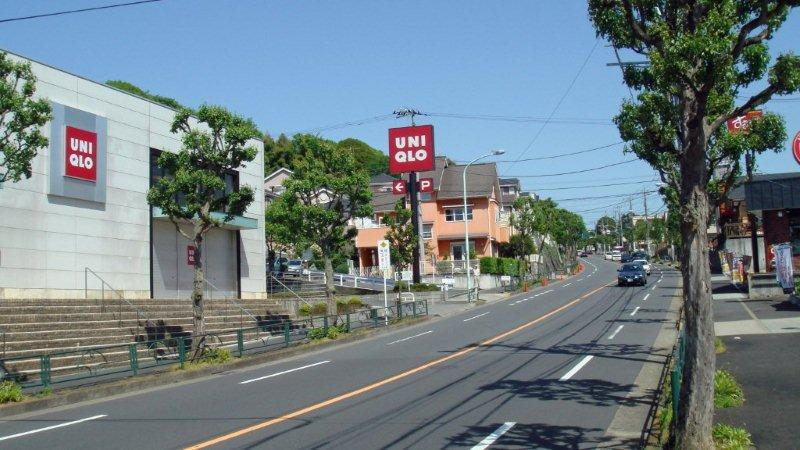 Around Buaiso at Tsurukawa, Machida, TOKYO